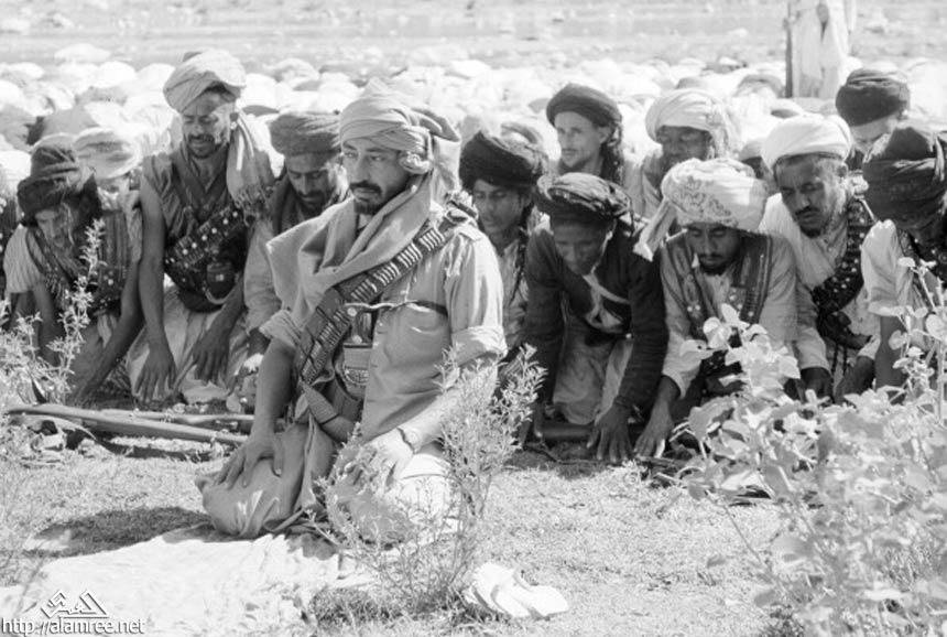 Yemen during the 1962 revolution